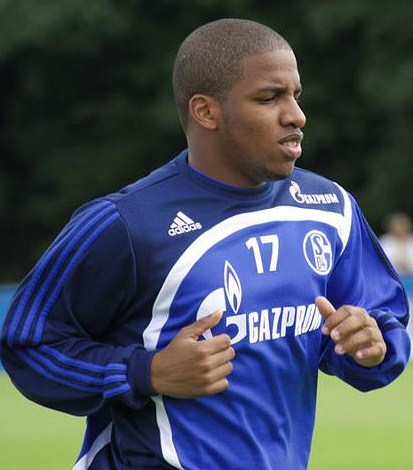 Farfan at Schalke